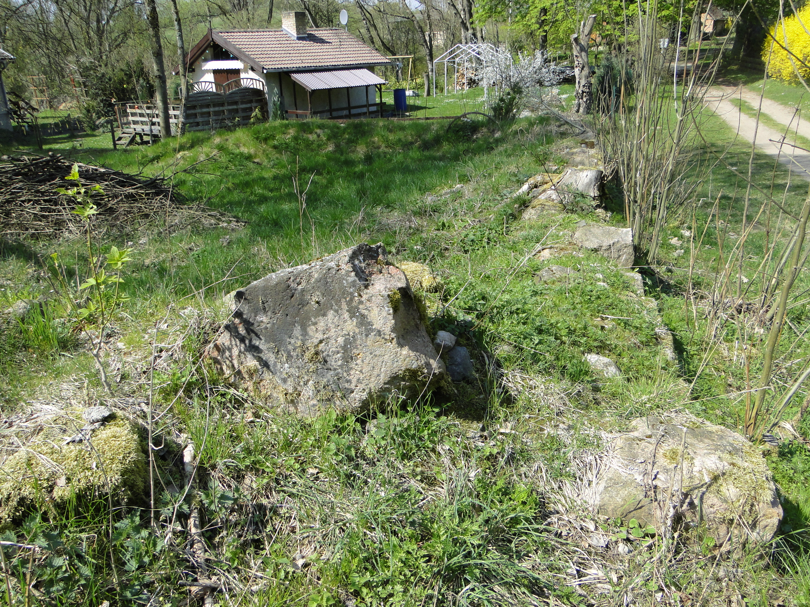 Rest of a basement in Garder Mühle, district Güstrow, Mecklenburg-Vorpommern, Germany